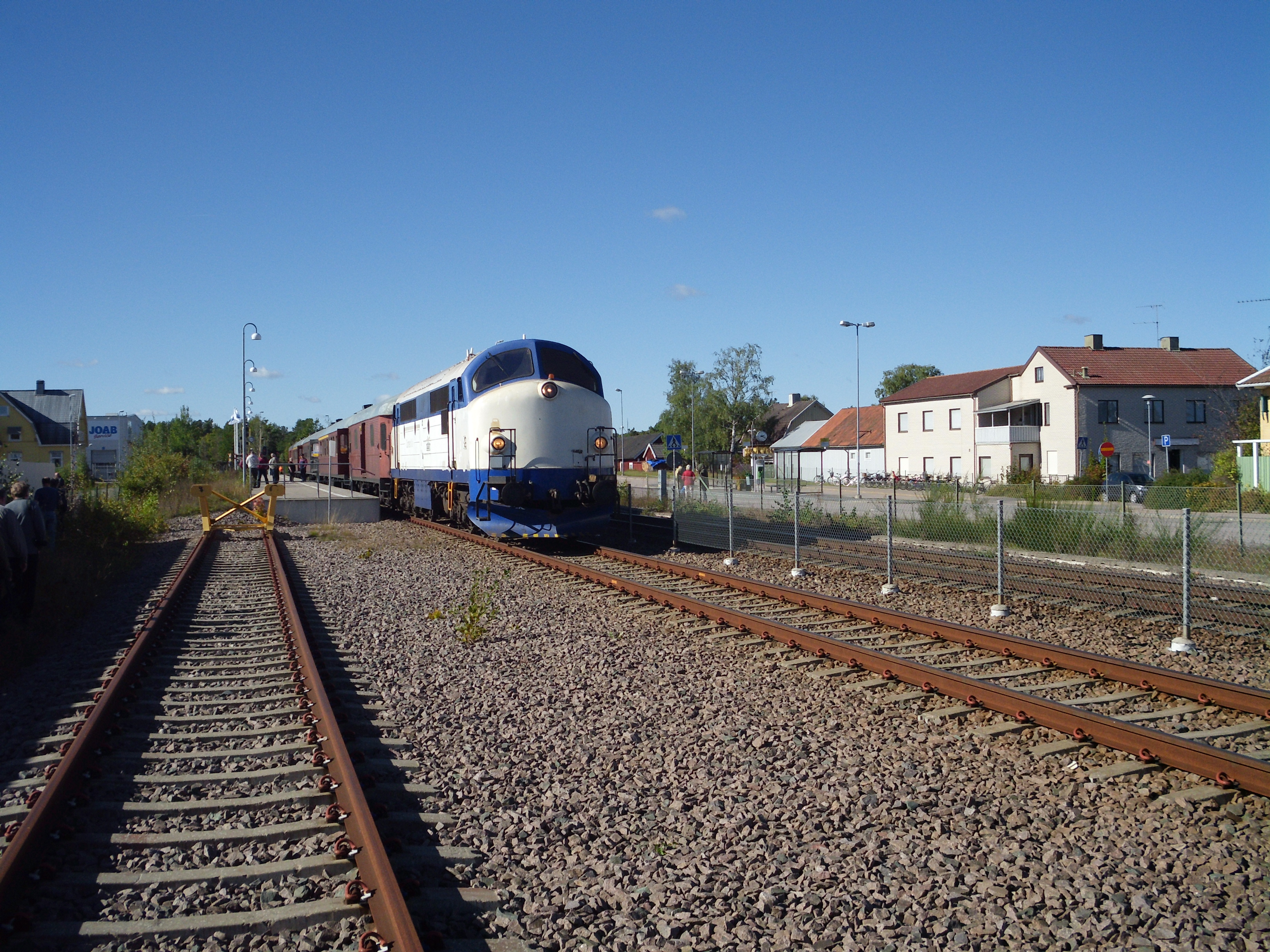 Train station in Blomstermåla, Sweden, with a tourist train at the platform.